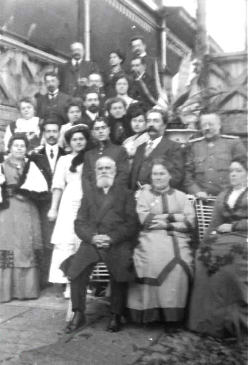 the Izumov family